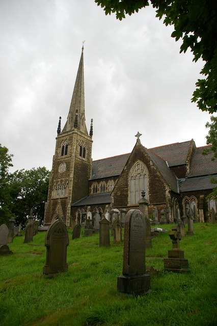 St Thomas' parish church, Newhey, Greater Manchester, seen from the southeast